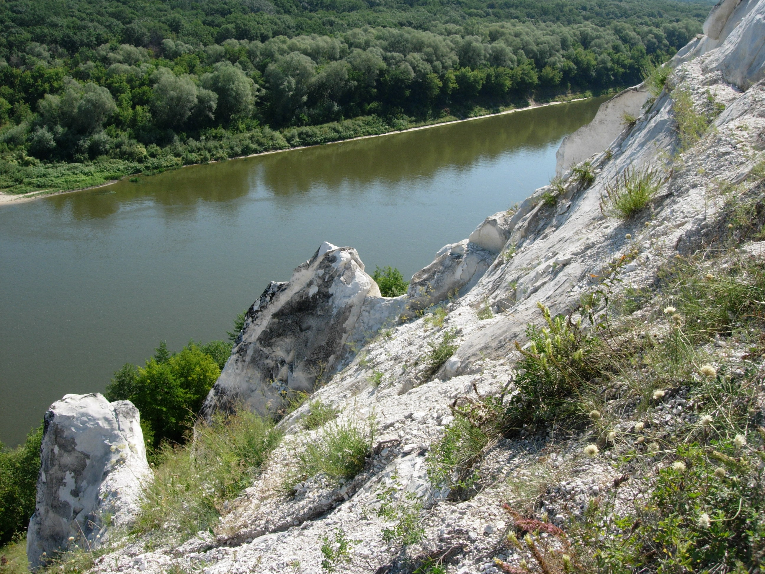 Chalky mountains at Don close to Pavlovsk, Voronezh region